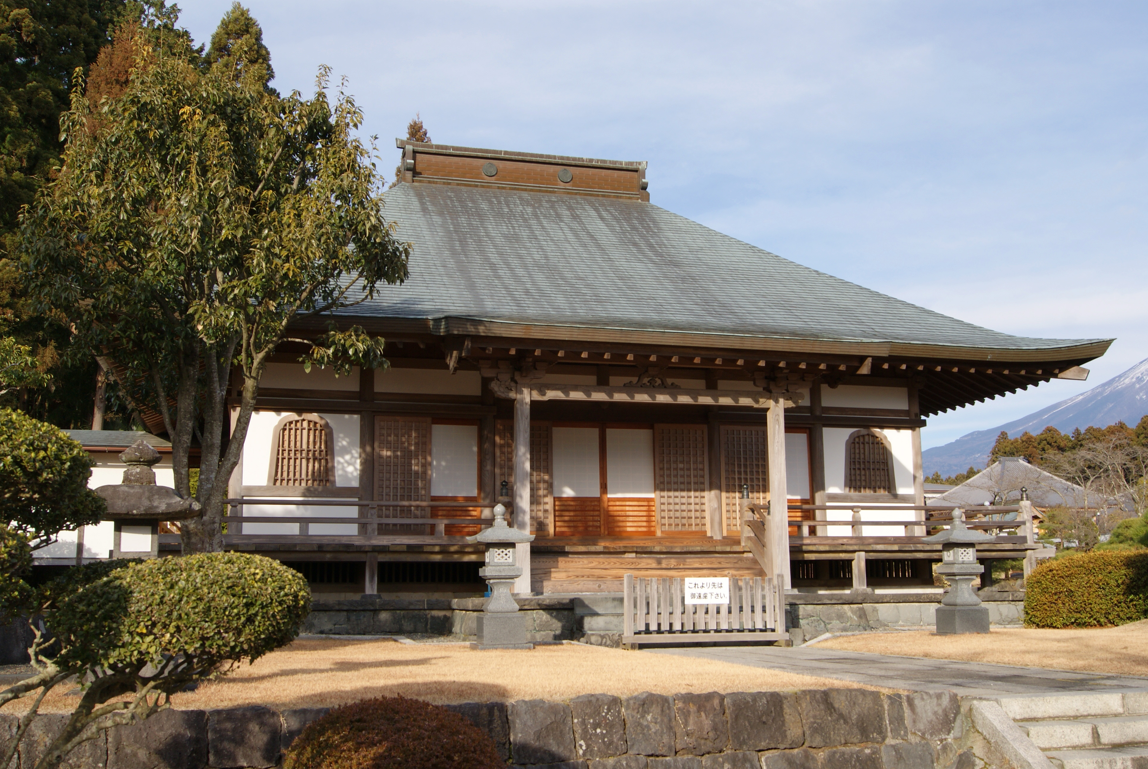 Renzō-bō of Taiseki-ji.